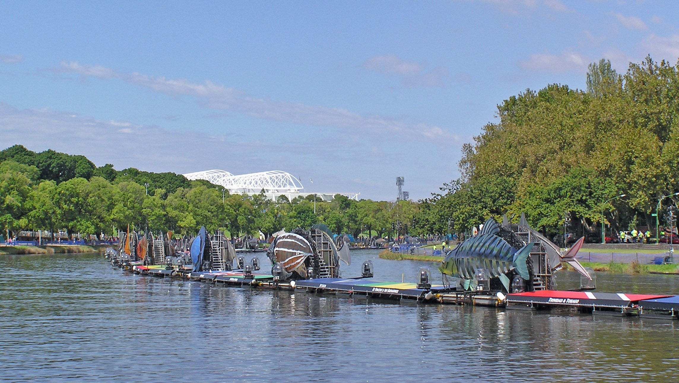 Melbourne 2006 XVIII Commonwealth Game - Fish Boats on Yarra River